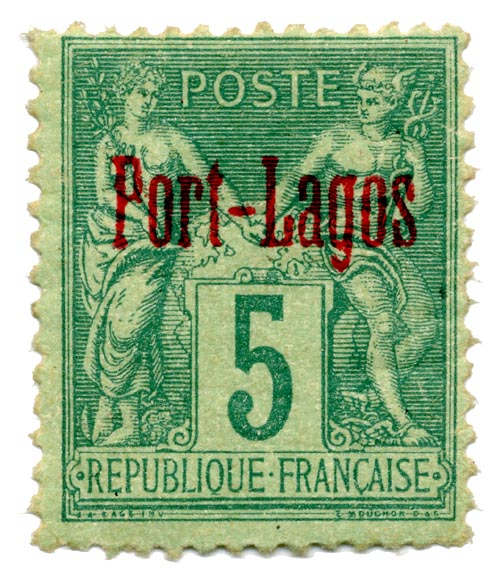 Scan of French post offices in the Turkish Empire (Port Lagos) 5c overprint stamp of 1893